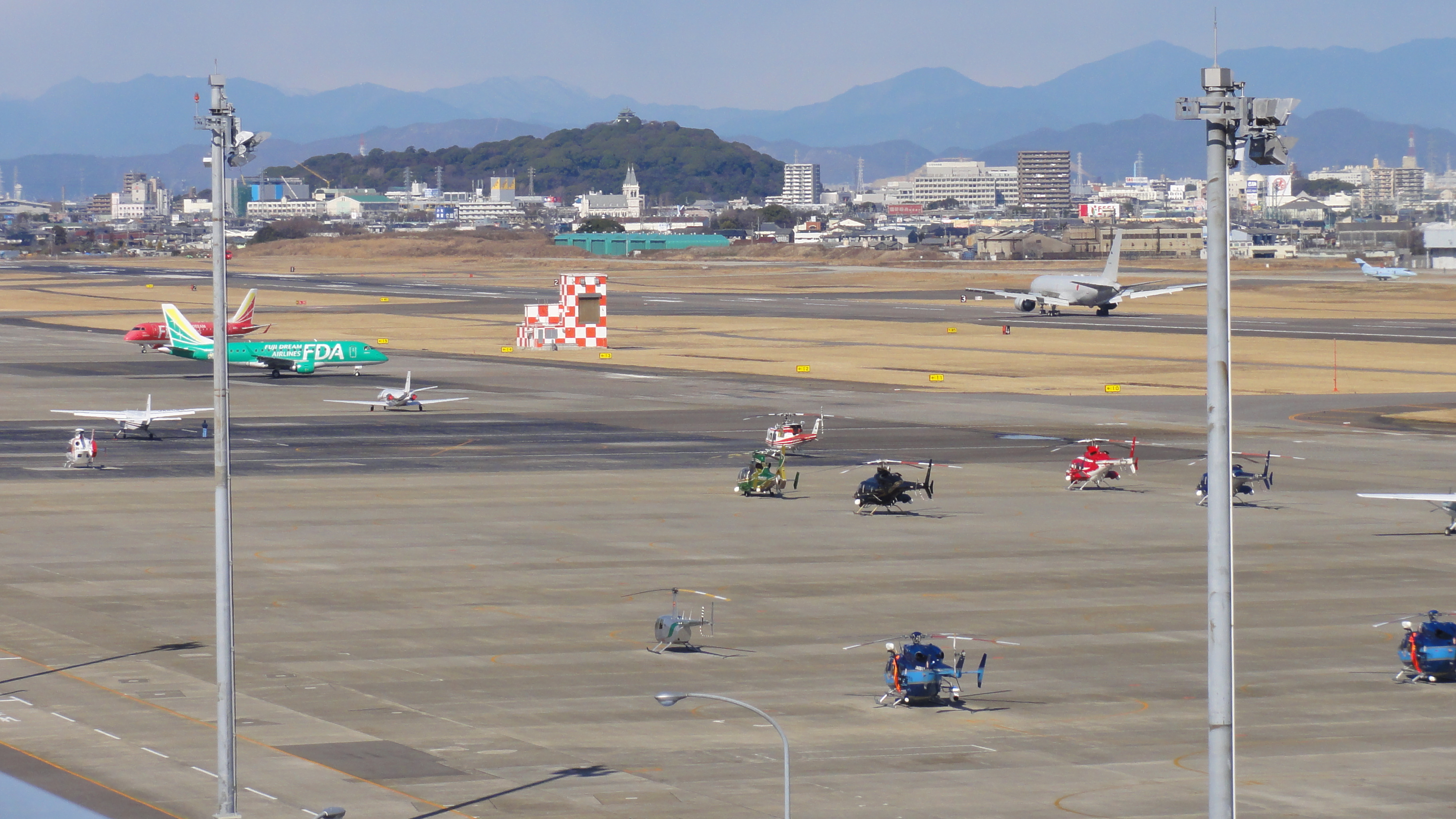 View form Airport Walk NAGOYA, Aichi Pref., Japan